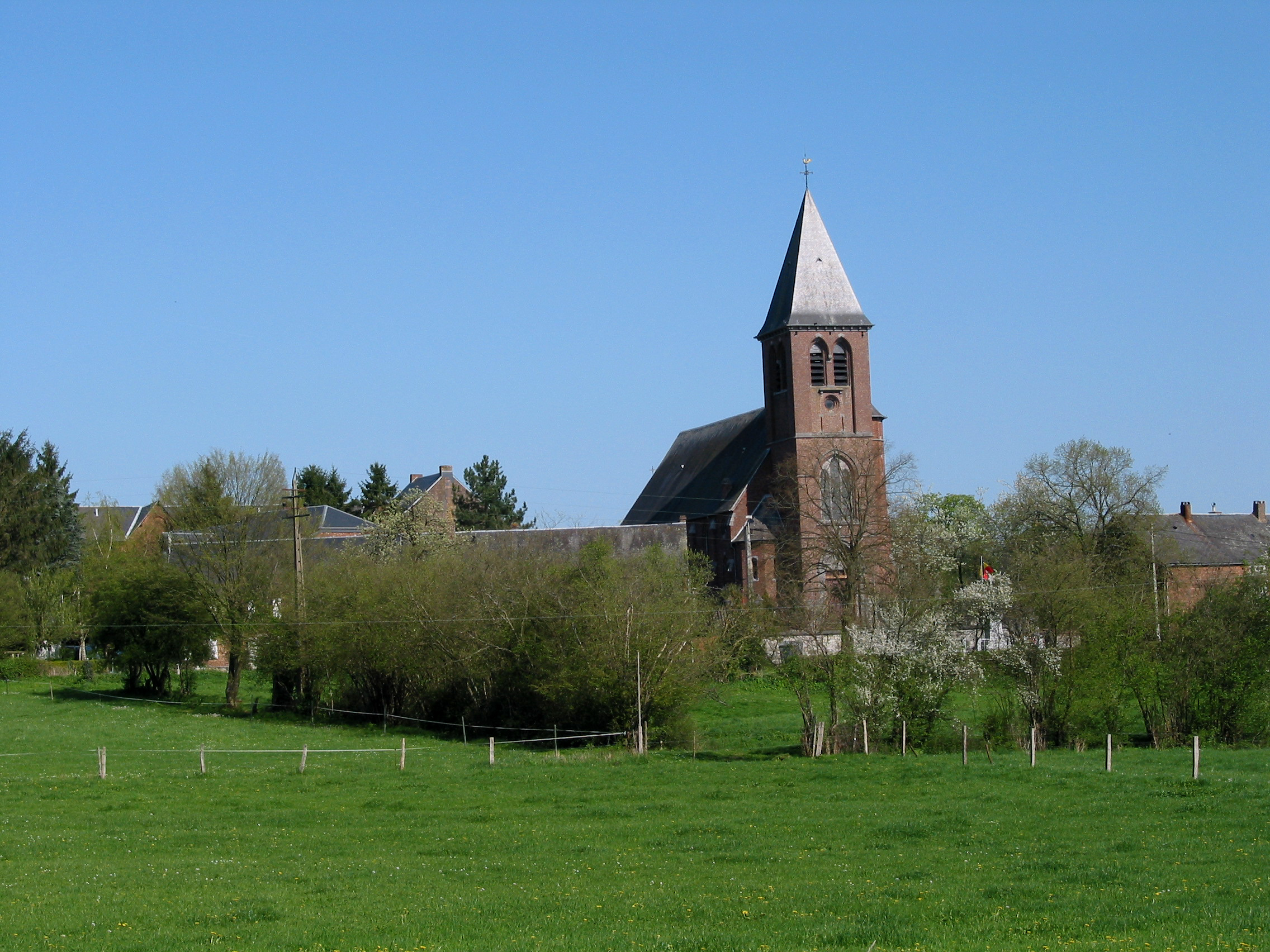 Ciergnon (Belgium), the Saint Martin’s church (1899 - 1900). Walon: Cièrgnon (Bèljike), l’èglîje Sint-Maurtin (1899 - 1900).